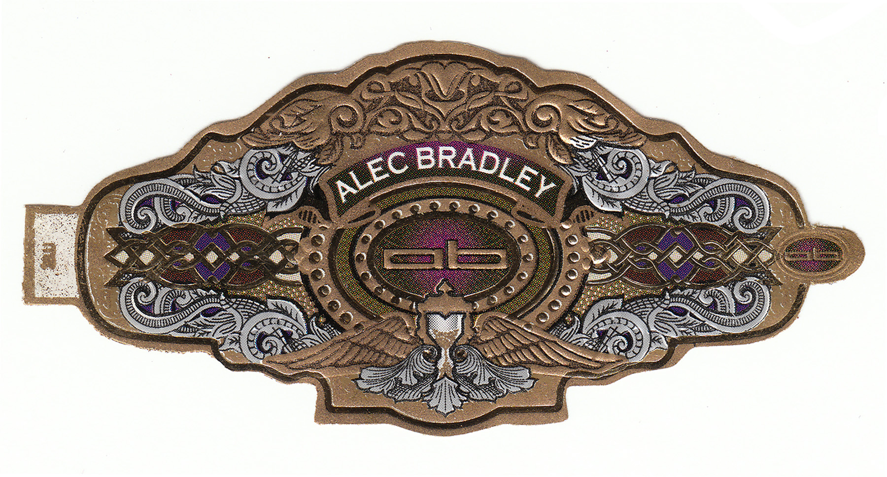 Cigar band from an Alec Bradley "Tempus" cigar, from the Tim Davenport collection. Scanned by me for Wikipedia. Additional digital editing performed, no copyright claimed. Image released under Creative Commons Attribution-Share Alike 3.0 license.